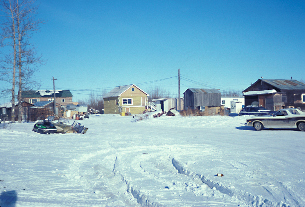 Cabins at Old Galena Village along the Yukon River FWS keywords: Wildlife refuges, Buildings, facilities and structures, Alaska, INNOKO NATIONAL WILDLIFE REFUGE U.S. Fish and Wildlife Service Item ID AK/RO/02695 Rights Public domain